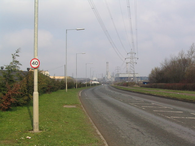 Phoenix Parkway, Corby